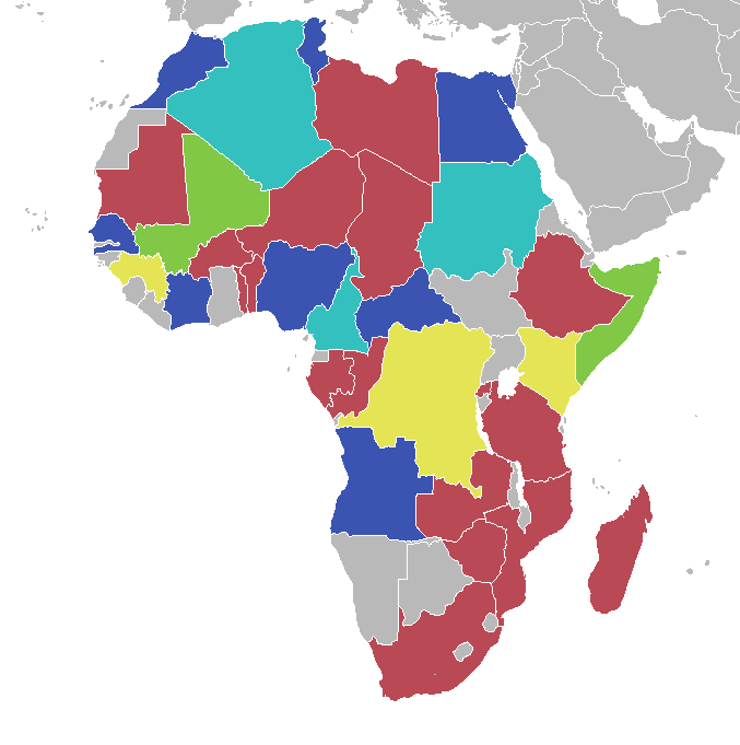 Best finishes of countries in the FIBA Africa Championship of 2007. First place Second place Fourth place and better Eighth place and better Worse than eighth place FIBA Africa member, no appearance yet Not a FIBA Africa member